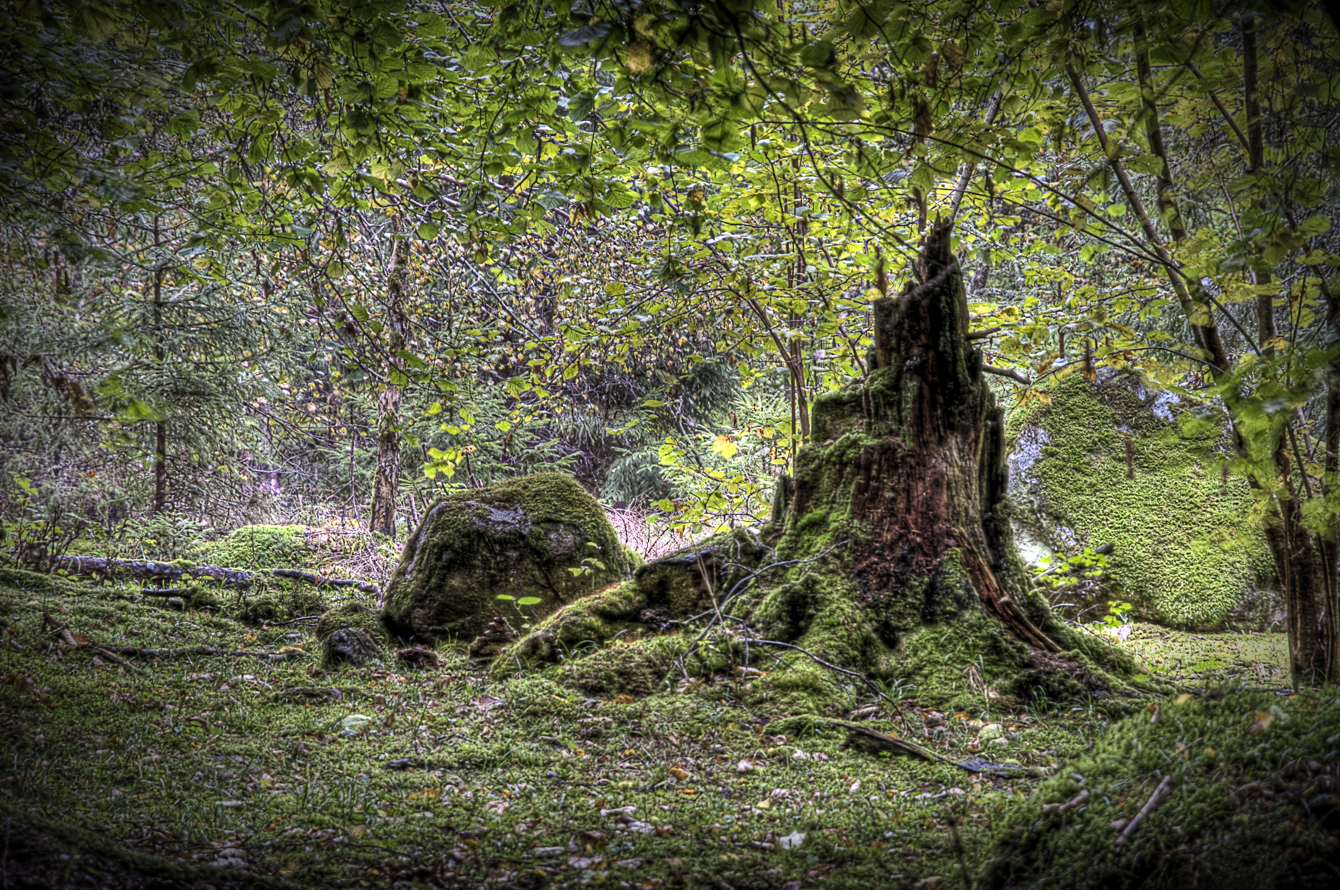 LOBB (Large on black background) Nikon D300 Nikon 16-85 f/3.5-5.6 @ 85mm - 7 exposures, f/5.6, ISO 100.